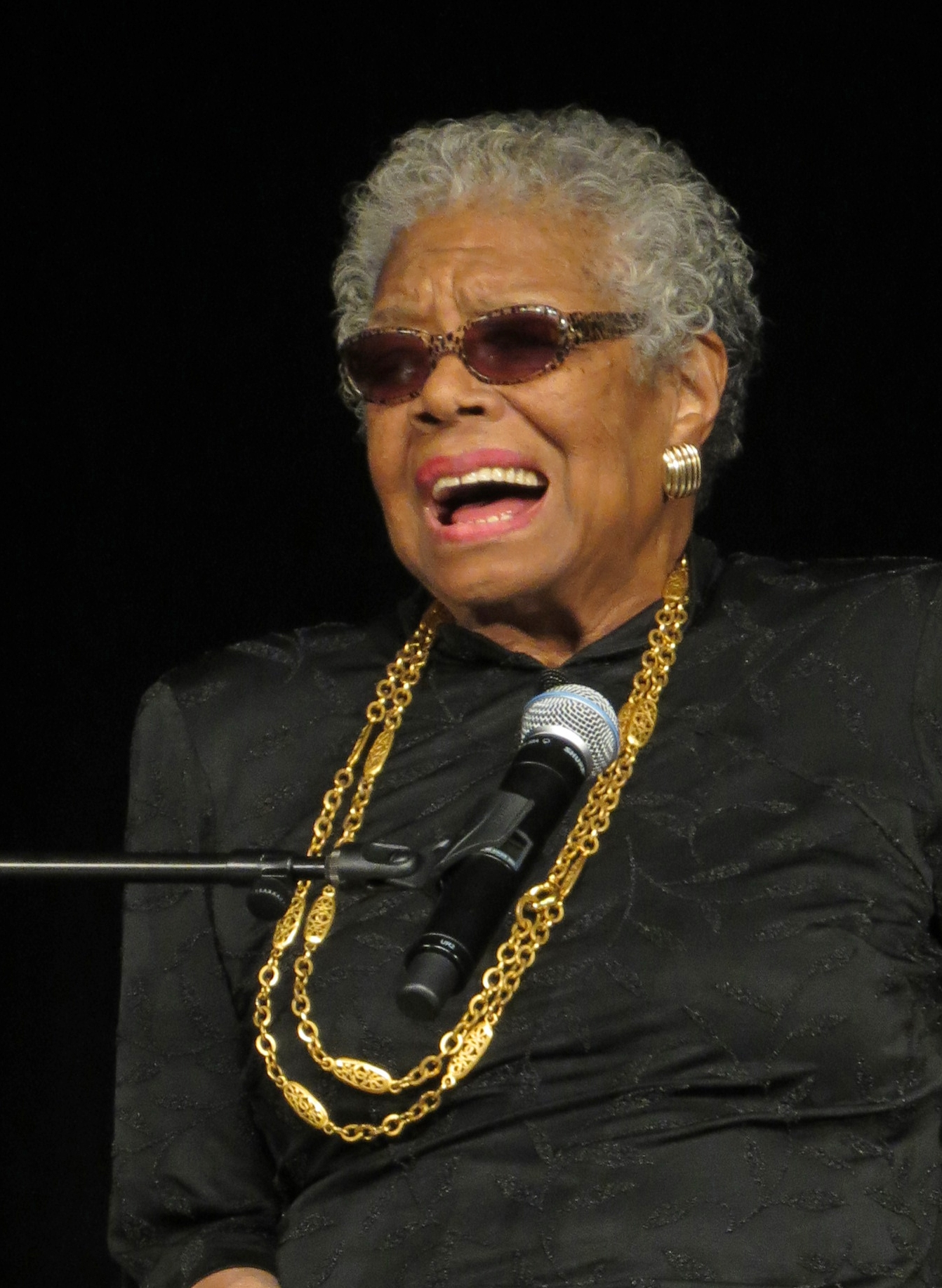 Maya Angelou at York College